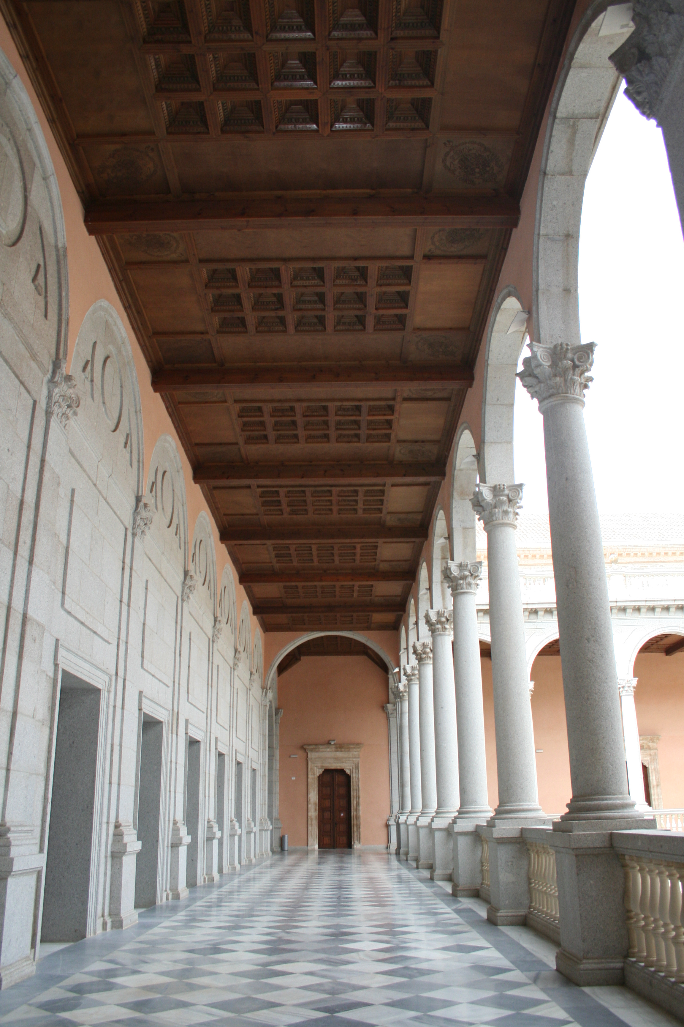 Gallery of the Great Central Courtyard of the Alcazar